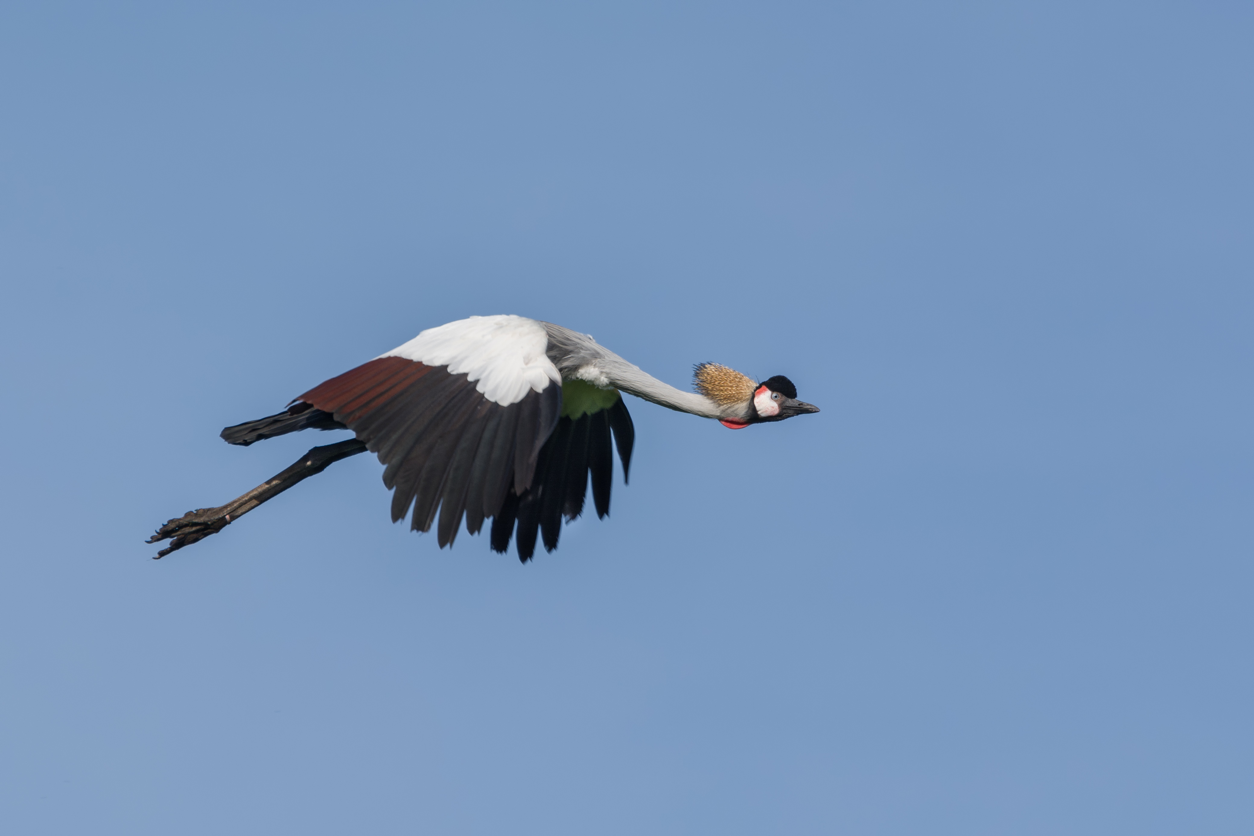 Grey crowned crane (Balearica regulorum), in flight, Weltvogelpark Walsrode